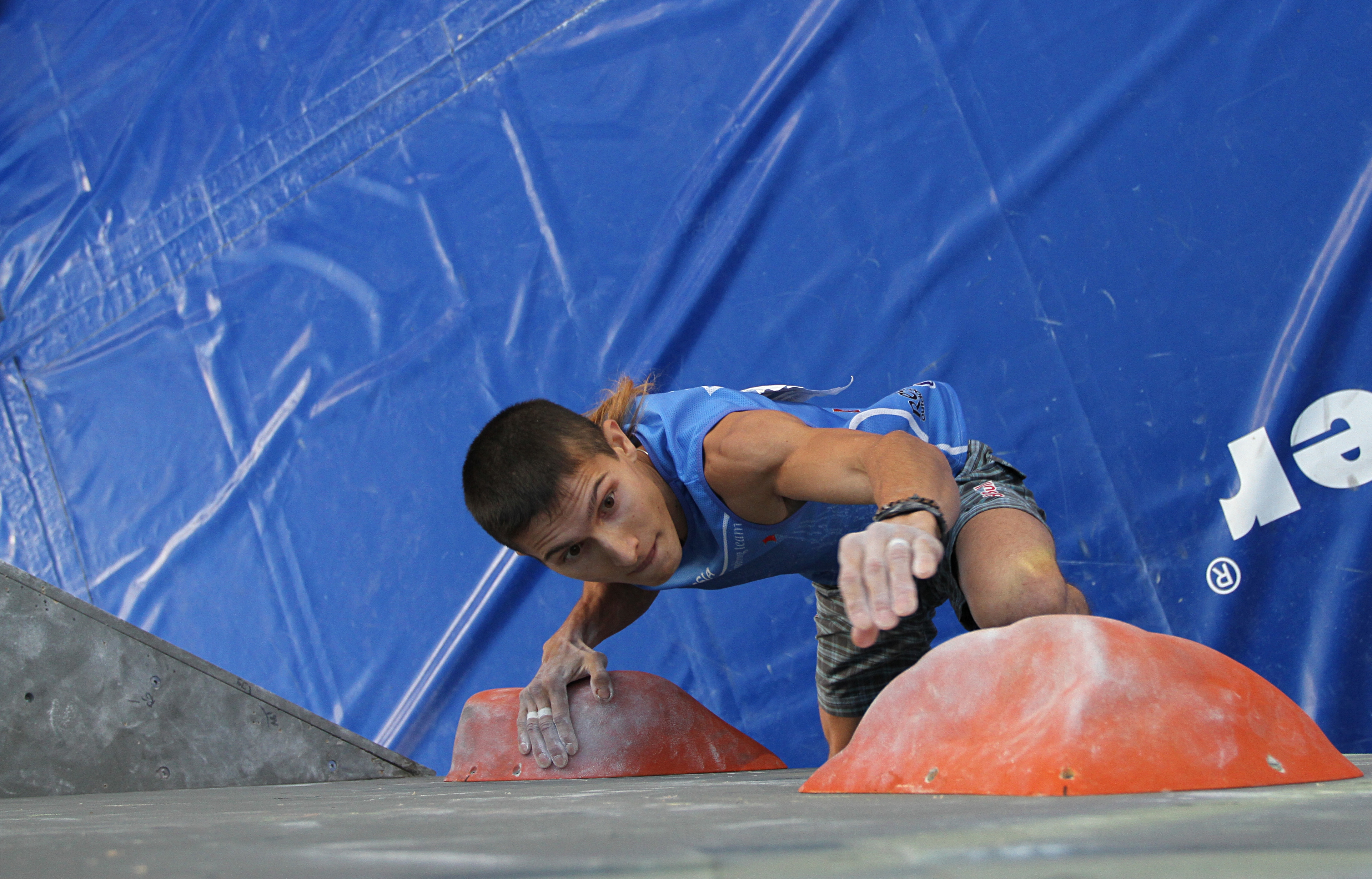 Rustam Gelmanov, RUS at the Boulder Worldcup 2012 in the Munich Olympic stadium